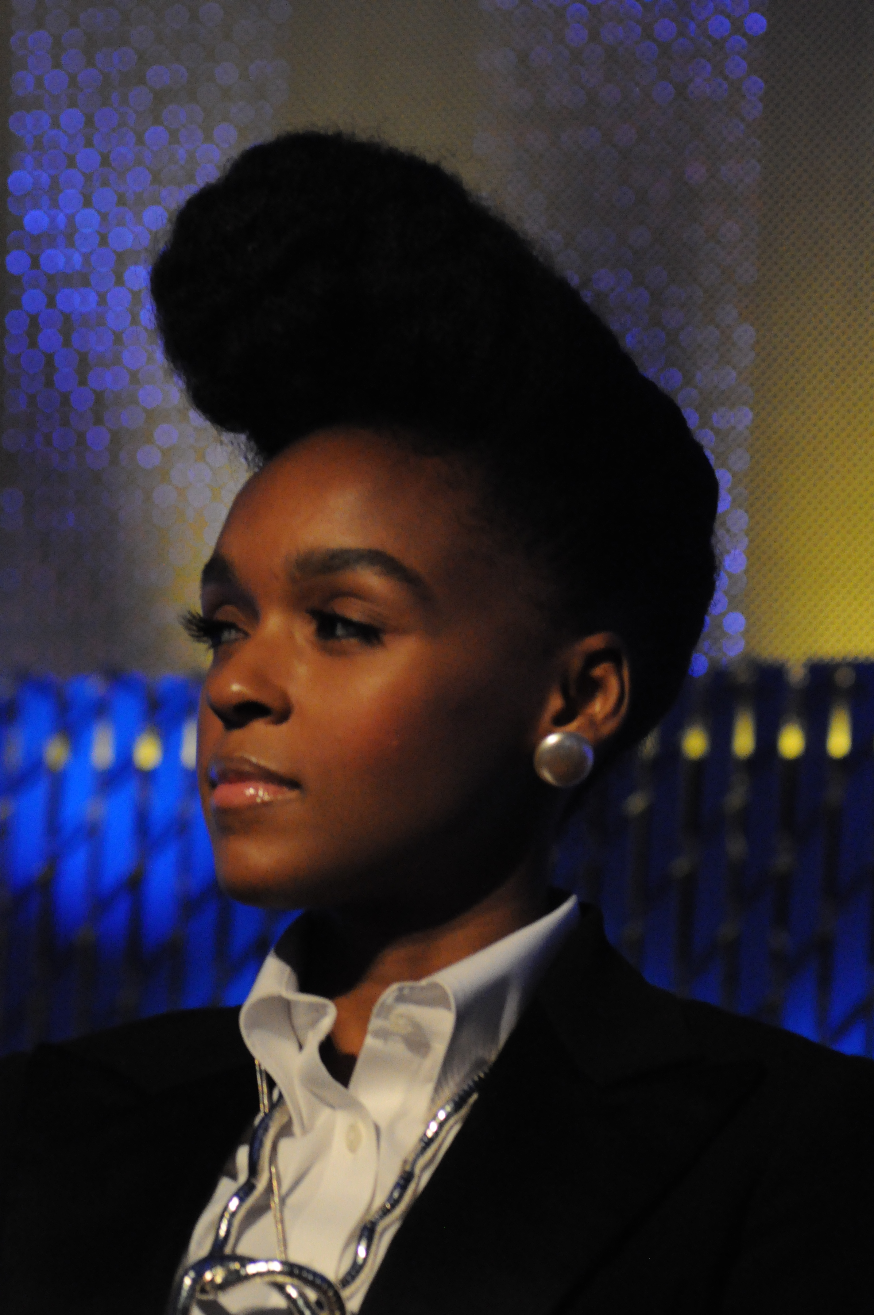 Janelle Monáe on the keynote panel of the 2010 Pop Conference, EMPSFM, Seattle, Washington.